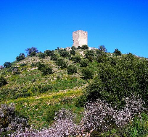 Azur Castle